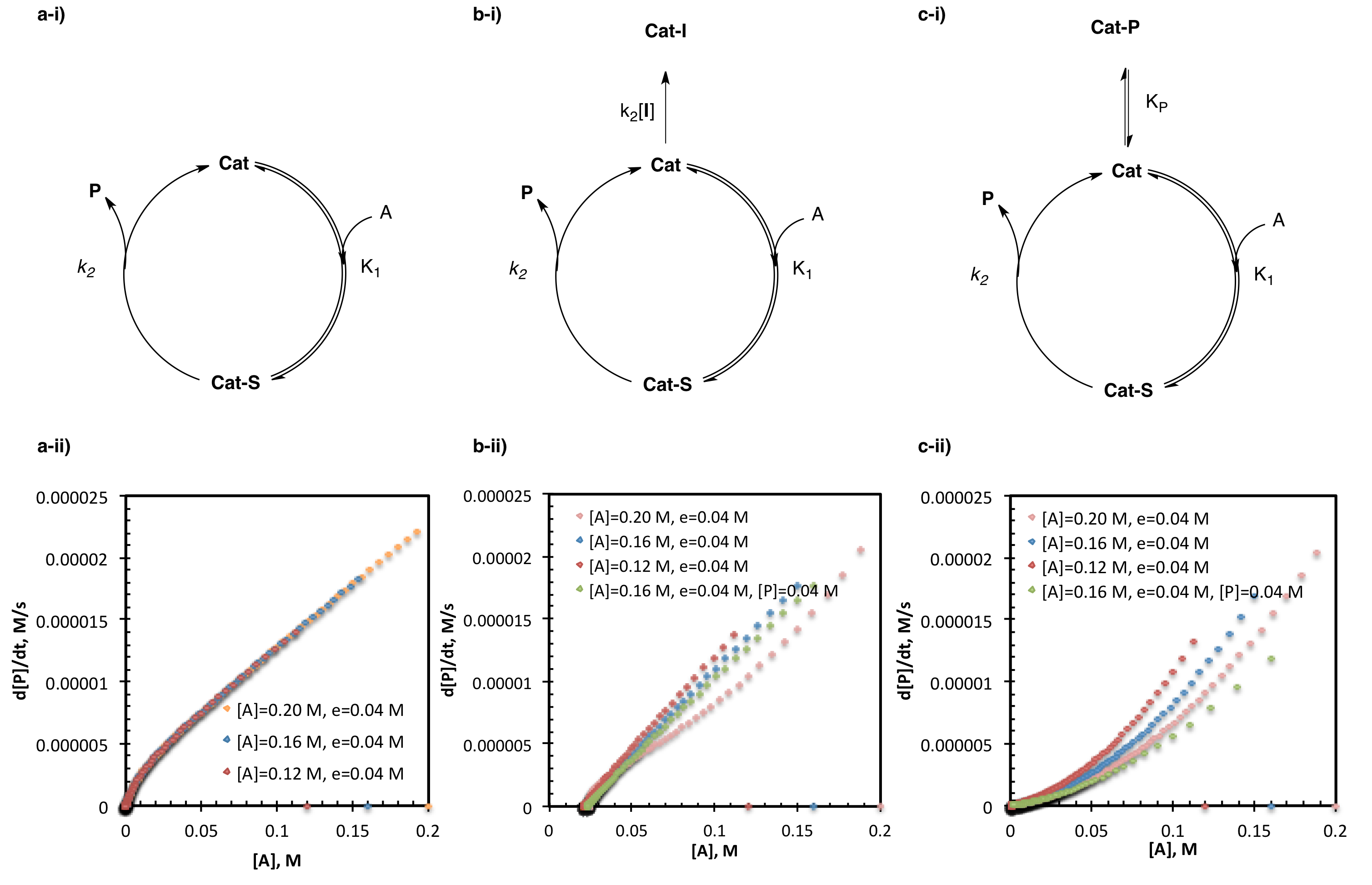 Reaction progress kinetic analysis can distinguish a) uninhibited catalysis b) product inhibition, and c) irreversible catalyst death by a series of same excess experiments. Lack of overlay between rate vs. substrate concentration for multiple trials of the same reaction with the same excess but different initial concentrations is indicative of product inhibition or catalyst death. The two may be distinguished where overlay of same excess experiments with added product is indicative of product inhibition, where lack of overlay is indicative of an alternative form of catalyst death. These plots were generated from arbitrary kinetic parameters utilizing CopasiUI kinetic modeling software.